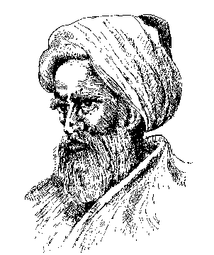 supposedly a drawing of ALhazen (Ibn Al-Haytham). (according to uploader User: Wayiran "published in Iranian text books of highschool before 1970")